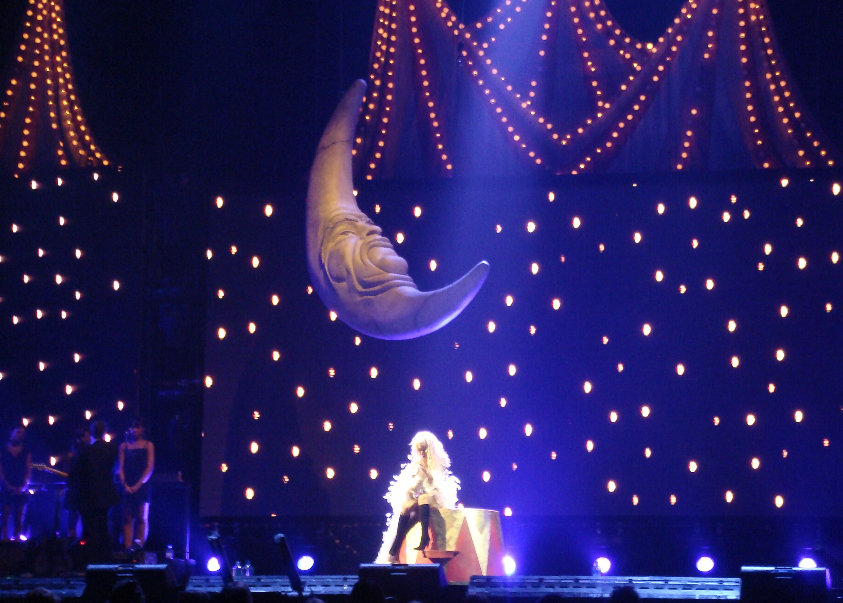 Christina Aguilera sings "Hurt"